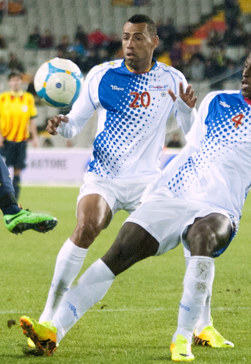 Cape Verdean international football player Carlos Lima 'Calú' during friendly match Catalonia vs. Cape Verde